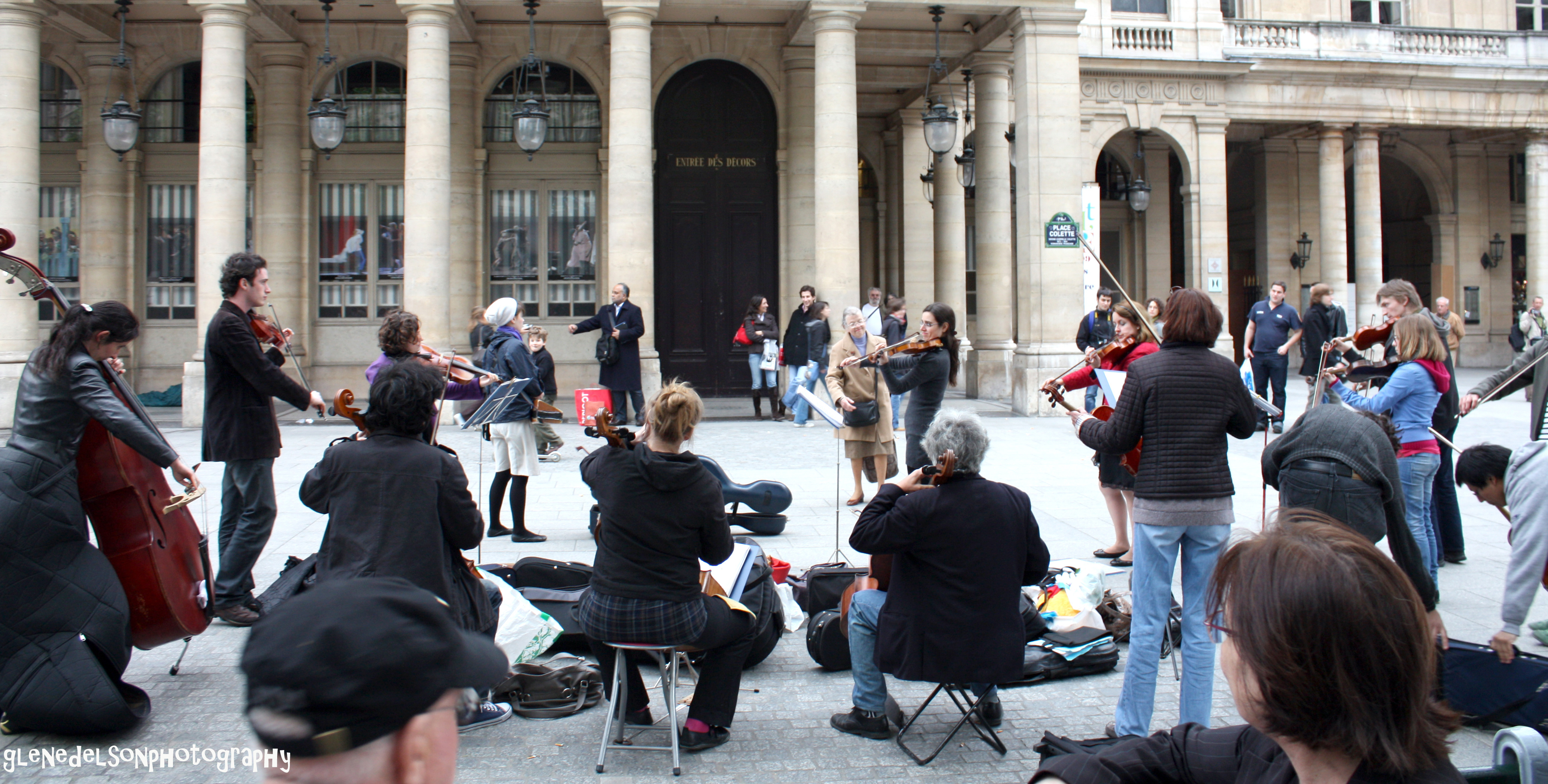 Paris school fo music perfoming in the square